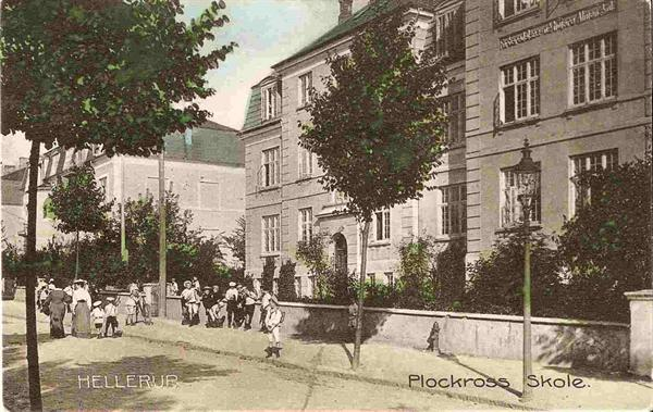 Plockross' Skole (later Øregård Gymnasium) in Hellerup, Copenhagen, Denmark